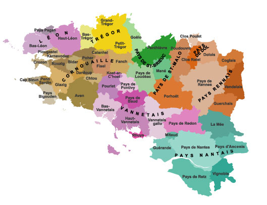 Traditional countries of Brittany